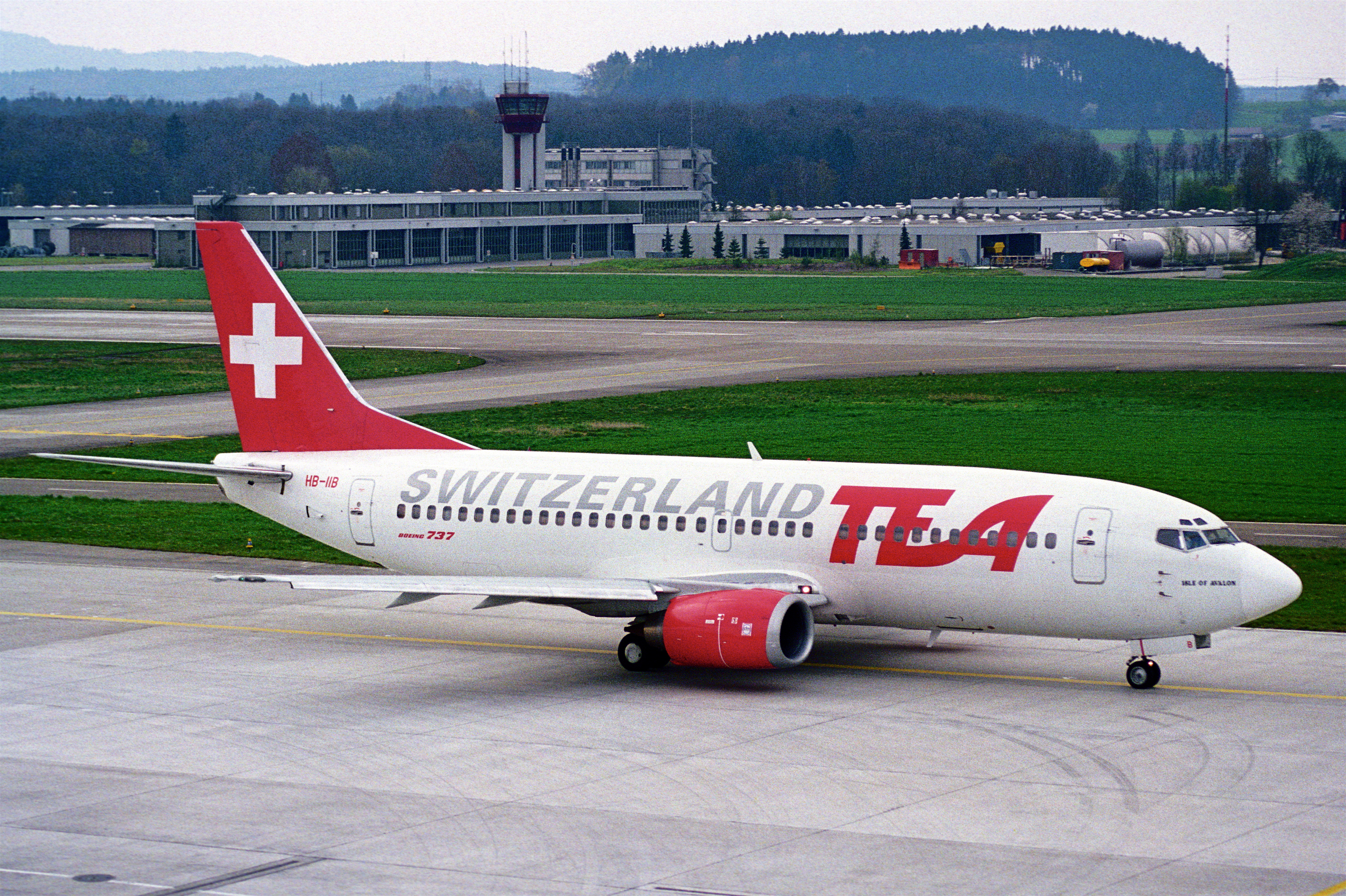 First flight on March 6, 1989... 23/03/1989 TEA Basel HB-IIB 01/12/1992 Vietnam Airlines HB-IIB 16/01/1997 Pacific Airlines HB-IIB 01/03/1997 TEA Switzerland HB-IIB 02/11/1998 EasyJet Switzerland HB-IIB 07/11/2003EasyJetG-OGVA last service 01/03/04 05/05/2004 Bulgaria Air LZ-BOL Stored 06/2006 05/03/2007 Estafeta Carga Aerea XA-UDO Converted to freighter by IAI